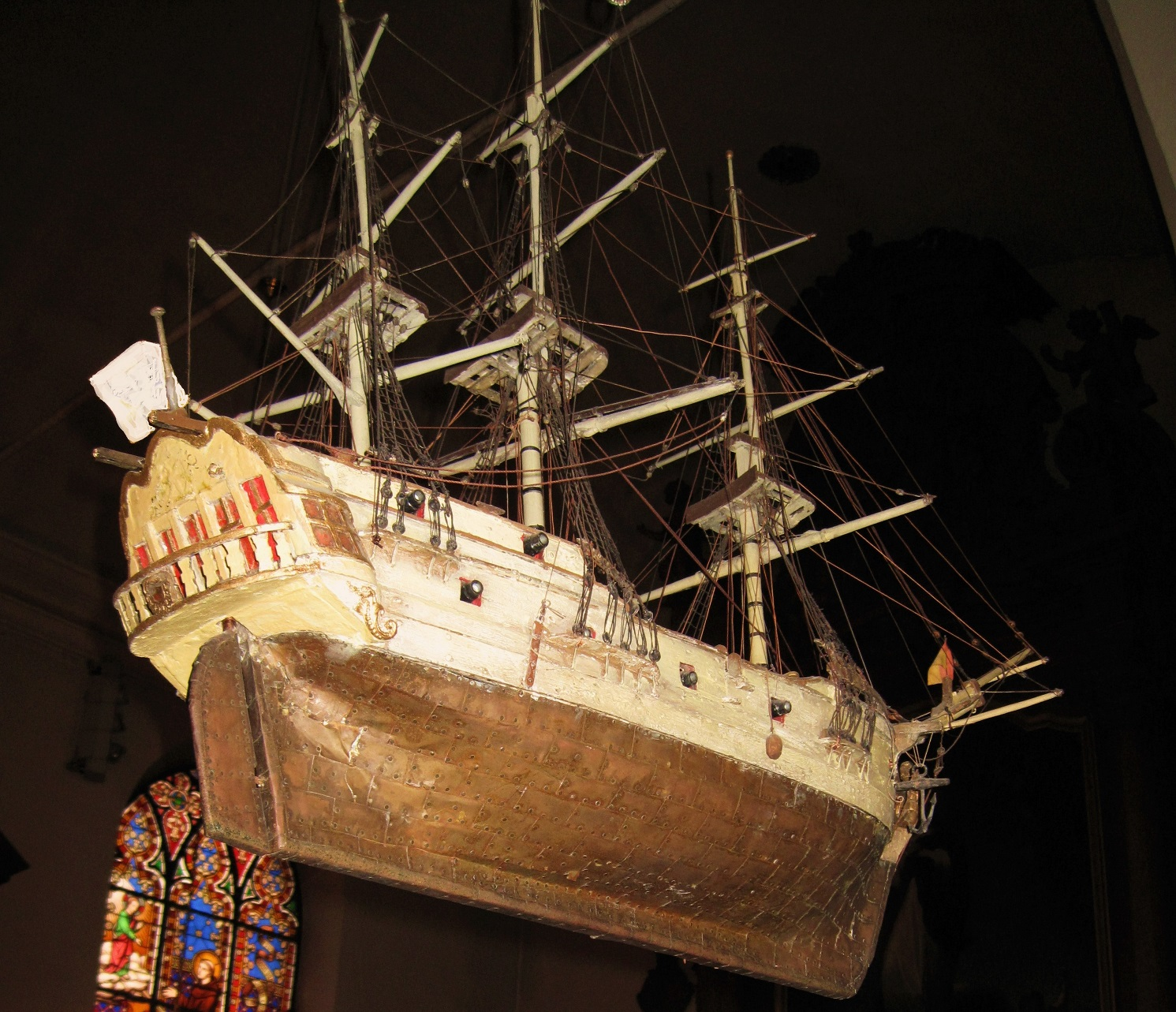 The Dragon, French sloop-of-war, ex English The Dragon Privateer Brig, and former u.S. Washington brigantine 1776.